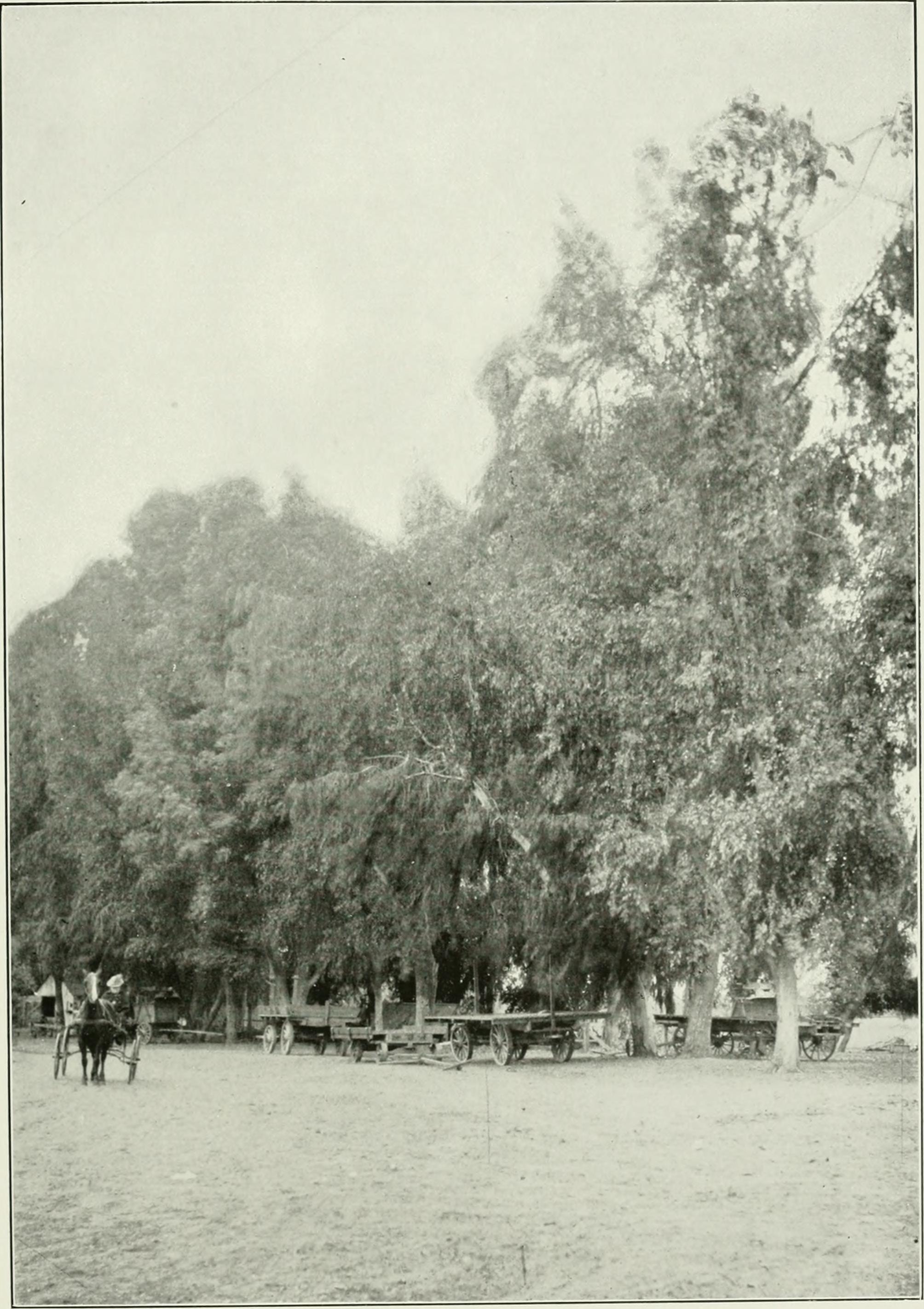 Title: Eucalypts cultivated in the United States Year: 1902 (1900s) Authors: McClatchie, Alfred James Subjects: Eucalyptus Forests and forestry -- United States Publisher: Washington : G.P.O. Text Appearing Before Image: Tree 12 years i Eucalyptus rudis on Grounds of Minnewawa kanch l(i. Diameter of trunk. 2 feet. This species endures more heatin the Southwest. •r irosts than any tree 35, Bureau of Forestiy, U. S. Dept of , Plate XLIII. Text Appearing After Image: Eucalyptus rudis, on Minnewawa Ranch, Fresno. Cal. Truus l-J Vfiir- n\t\. Uiaiiiclrr of Iniiiks. l.i to ;;il inclu-. PRINCIPAL SPECIES OF EUCALYPTS GROWN IN AMERICA. 57 appearance, but frequently attaining a height there of over loOfeet and adiameter of 3 feet. The grayish or brownish bark of the entire trunkis conniionly rough, wrinkled, and persistent; that of the upper ))ranchessmooth and cream-oolored or reddish. (PI. XVI.) The leaves are somewhat leathery. \arying in shape from oval toslender lance-shaped. They are paler beneath and frequently mottledyellowish and green or red. The veins are numerous and spread likethe parts of a feather, giving the leaves quite a characteristic appear-ance. The 3oung leaves when torn asunder show the presence of arubber-like fluid by the fine glutinous threads that are drawn out.The bloom is very profuse from an early age. The flowers are whiteor creamy in color, above the average in size, in rather open, flat-topped clusters. They contain a lar